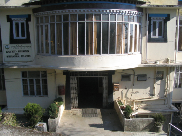 Department of Information and International Relations of the Central Tibetan Administration (formerly the Tibetan Government-in-Exile)